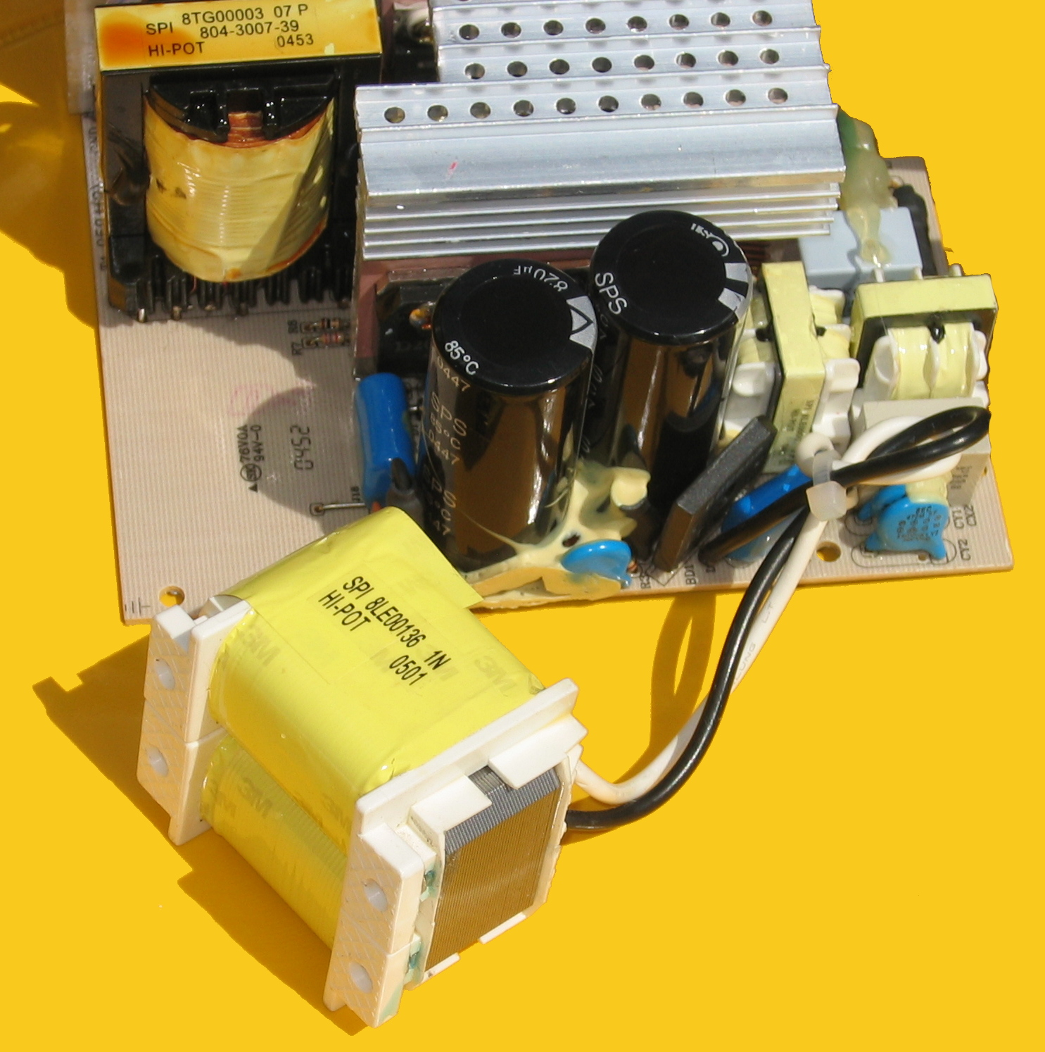 Passive PFC